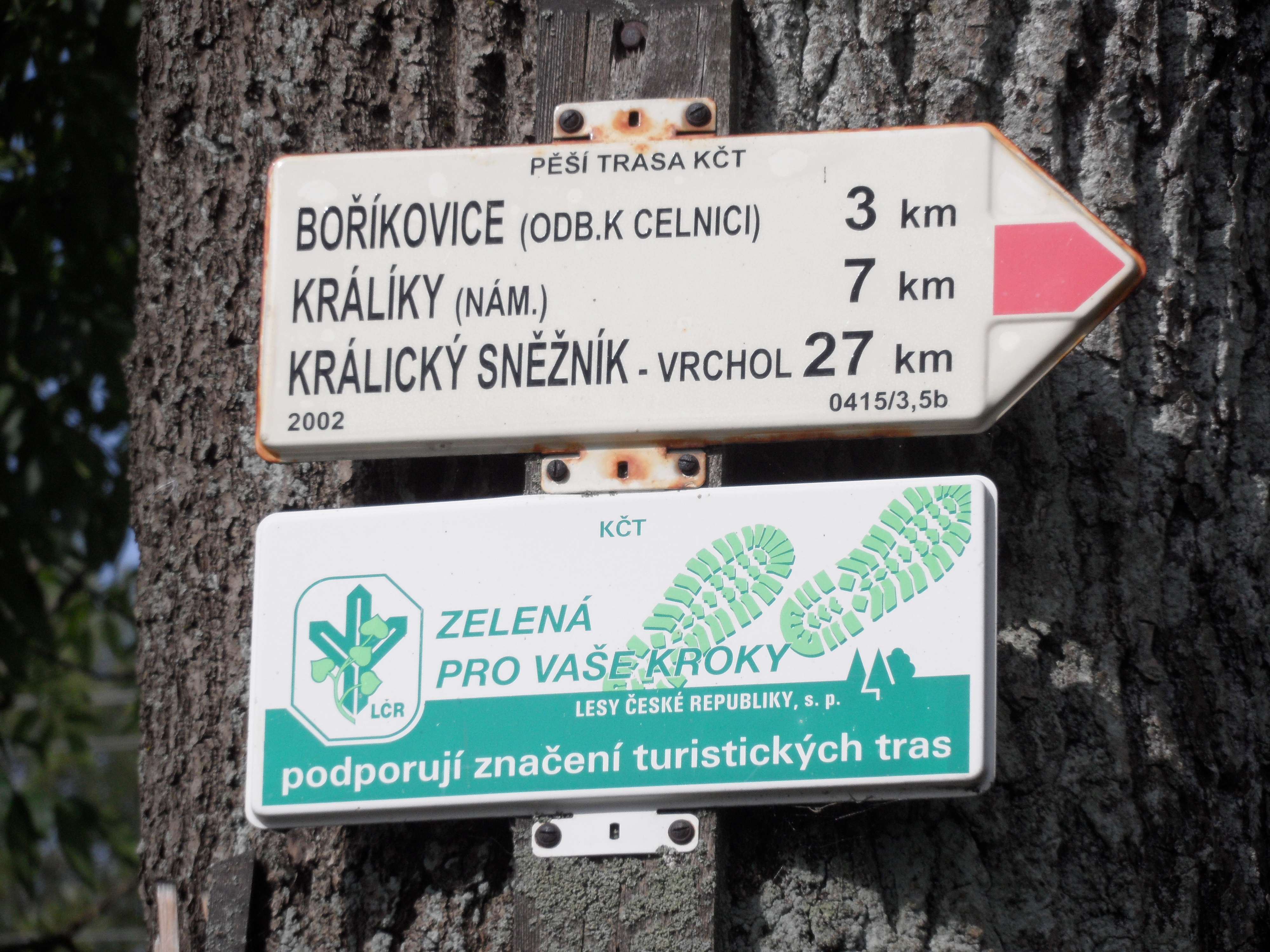 Horní Boříkovice (Králíky) F. Sign of Hiking Path, Ústí nad Orlicí District, the Czech Republic.